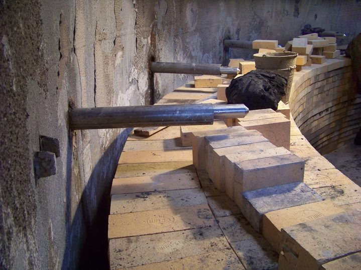 Laying of a lining of an uncooled part of a blast furnace's shaft.